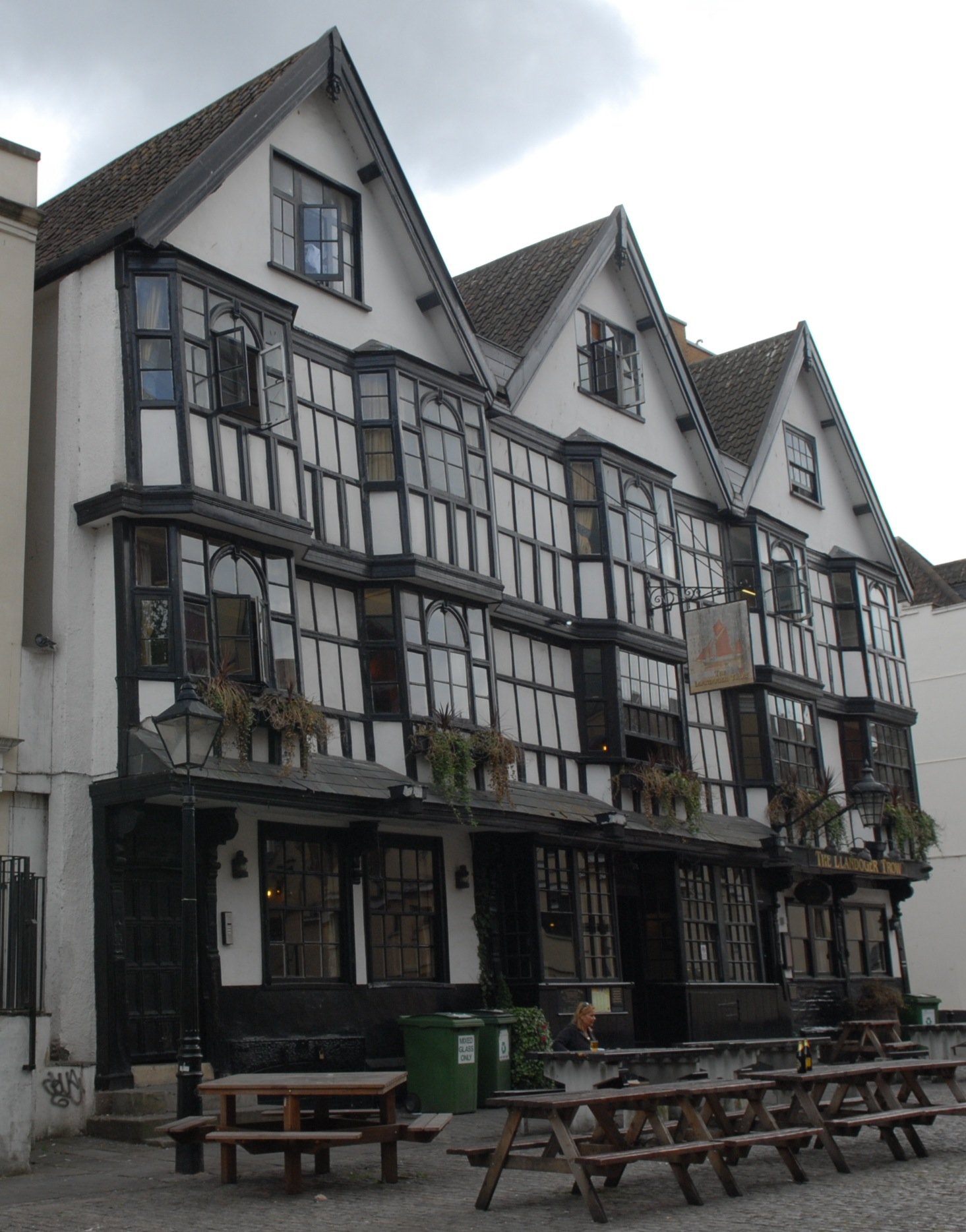 The Llandoger Trow public house in King Street, Bristol, England (This image is a cropped version of the original published on Flickr)